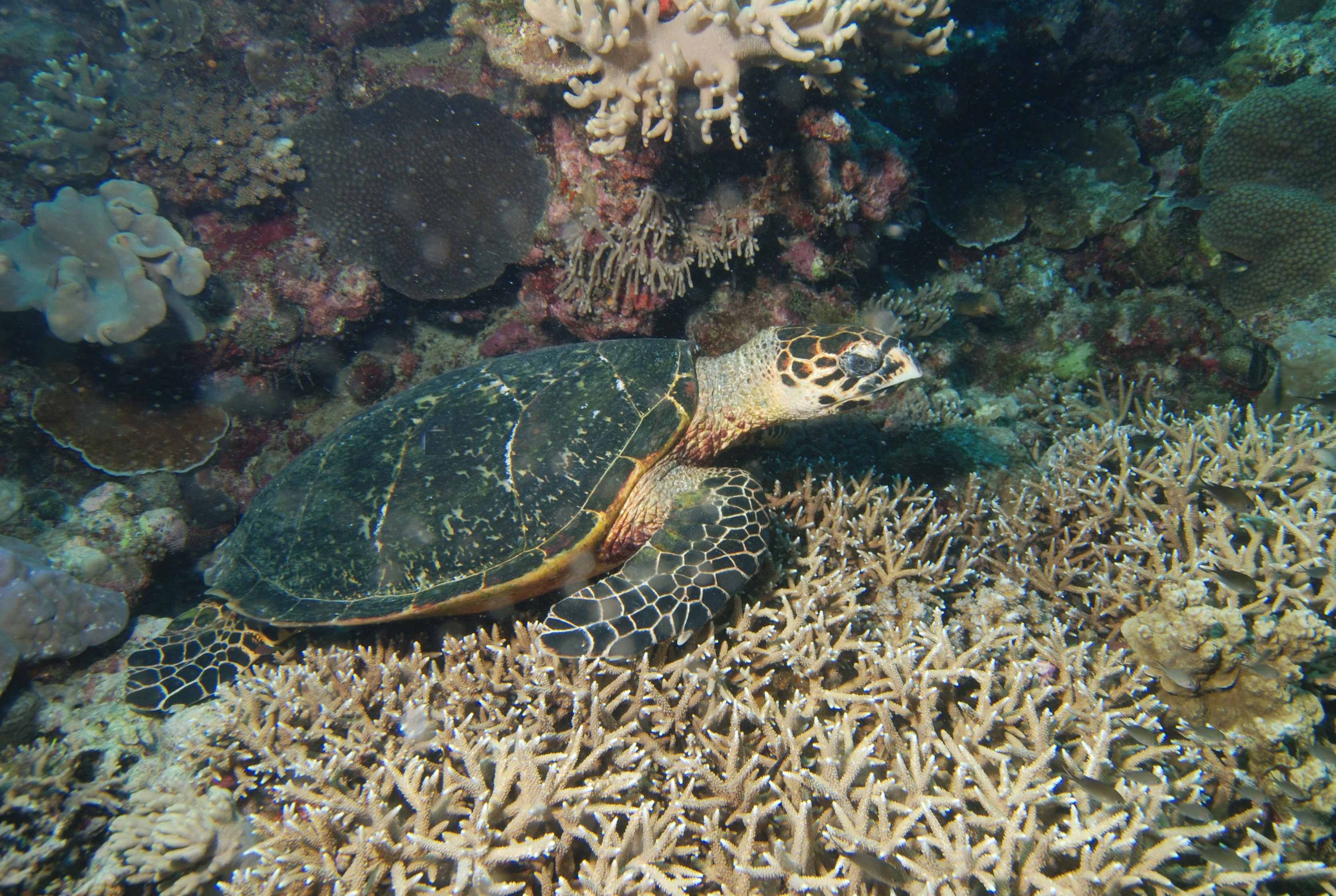 Hawksbill turtle (Eretmochelys imbricata).